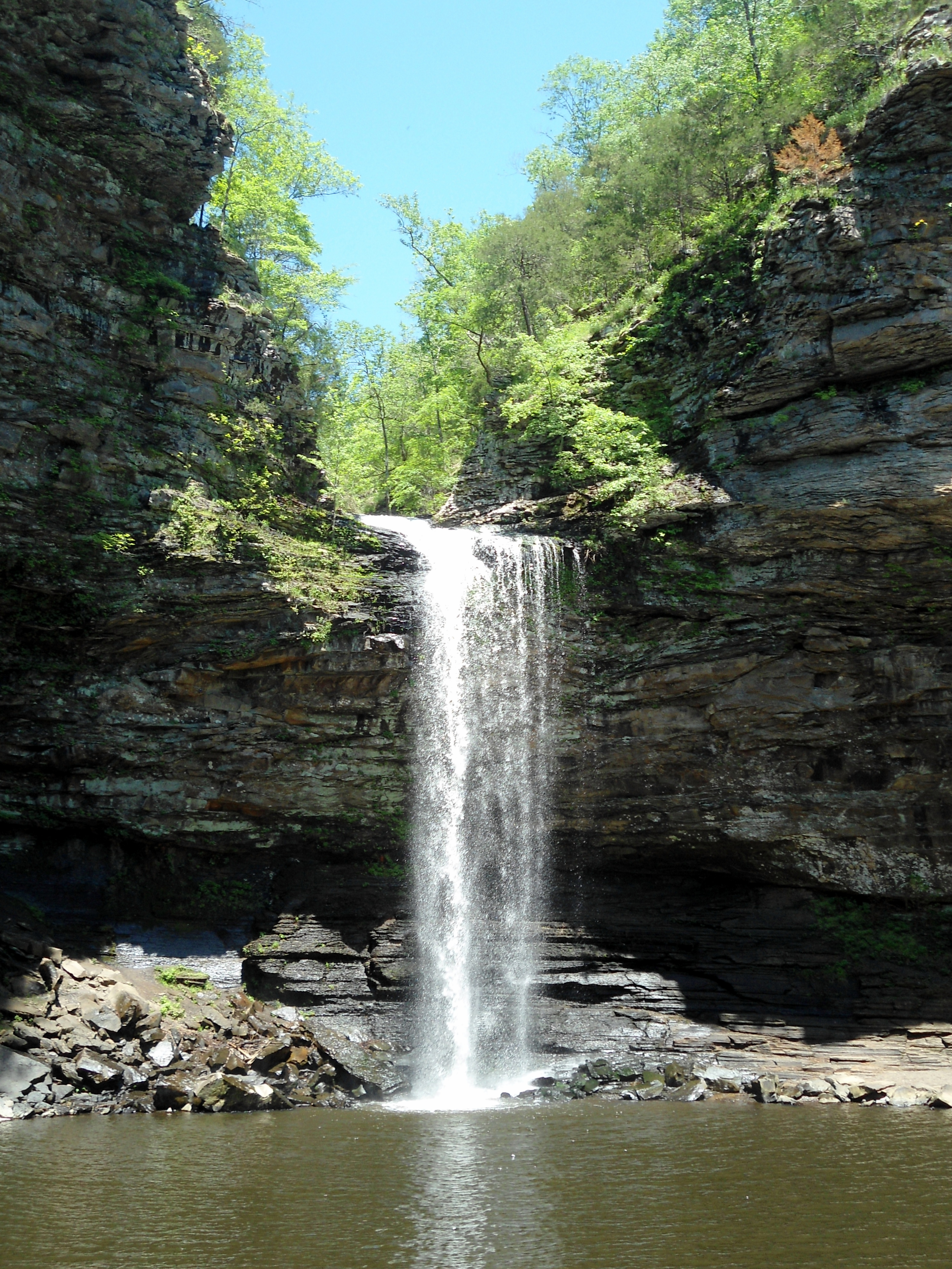 Cedar Falls at the end of the Cedar Falls Trail at Petit Jean State Park near Morrilton, AR